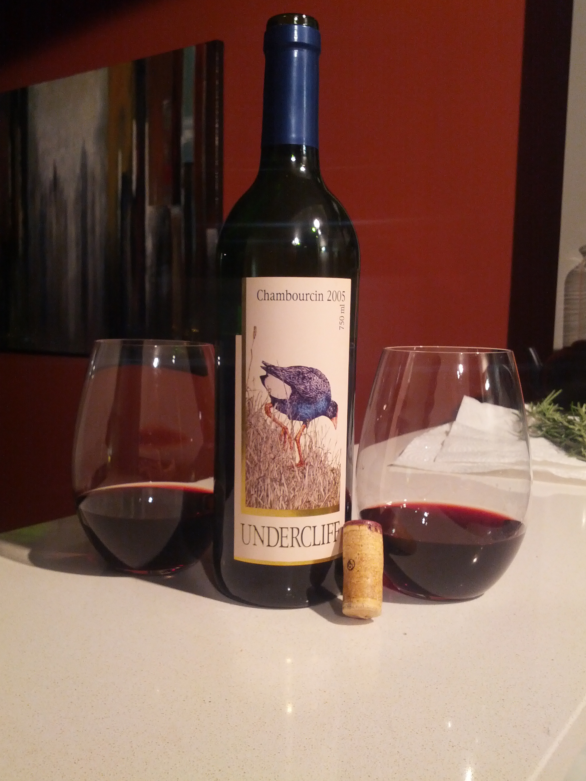 Australian Chambourcin wine from New South Wales